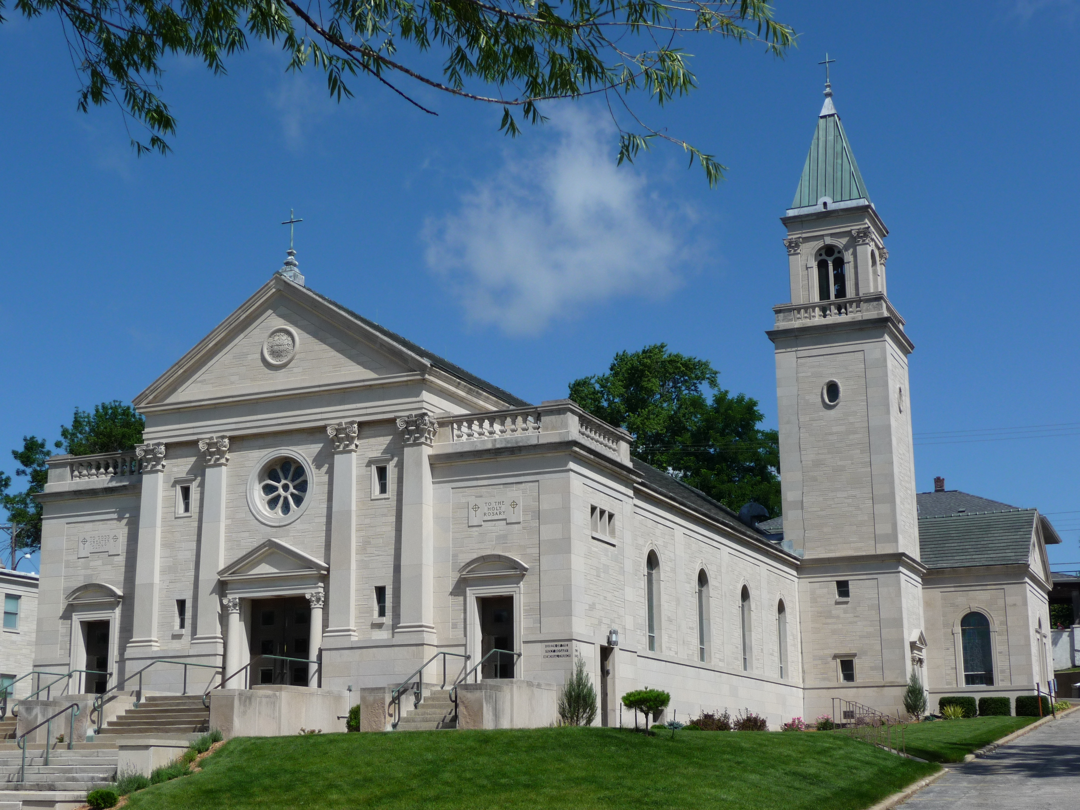 This photo was taken by Robert Lipka of the Queen of the Holy Rosary Shrine in July of 2009.